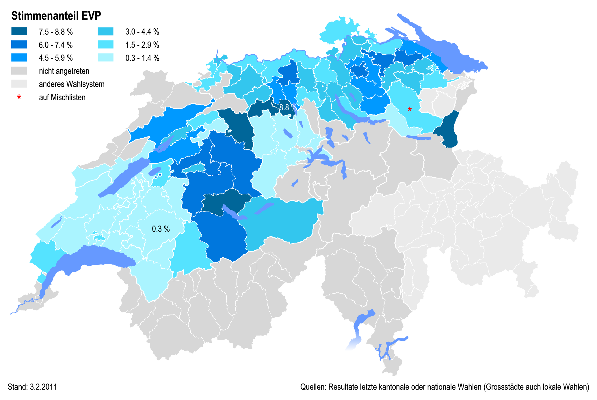 Geographical overview on the votes share of the Evangelical People's Party of Switzerland in the districts.